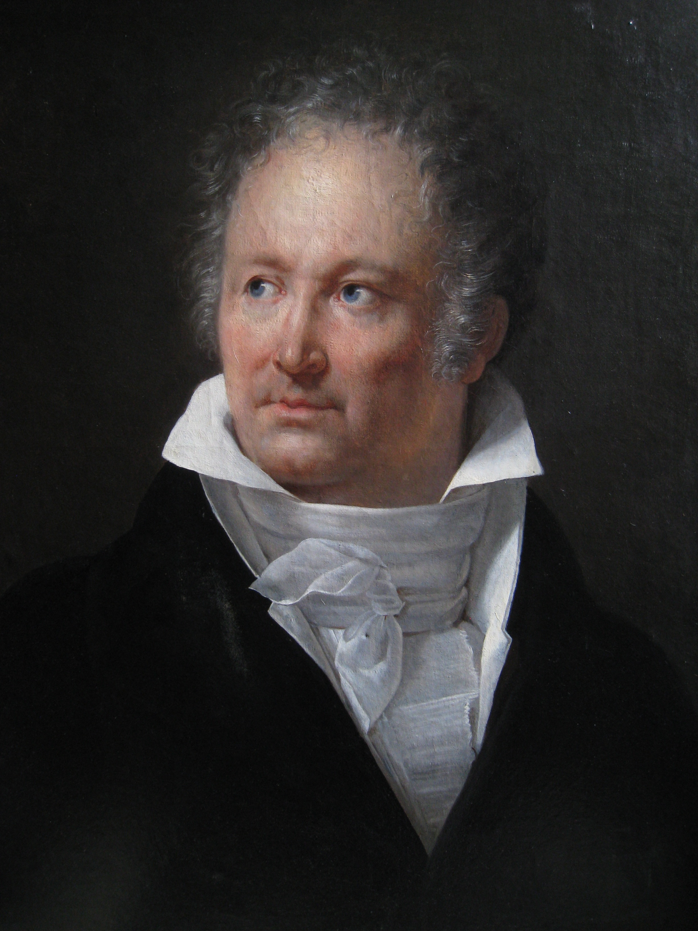 Portrait of Samuel Hahnemann, oil on canvas, 62x74 cms. Provenance: Marie Melanie d'Hervilly. Rodolph (talk) 14:43, 4 March 2009 (UTC)